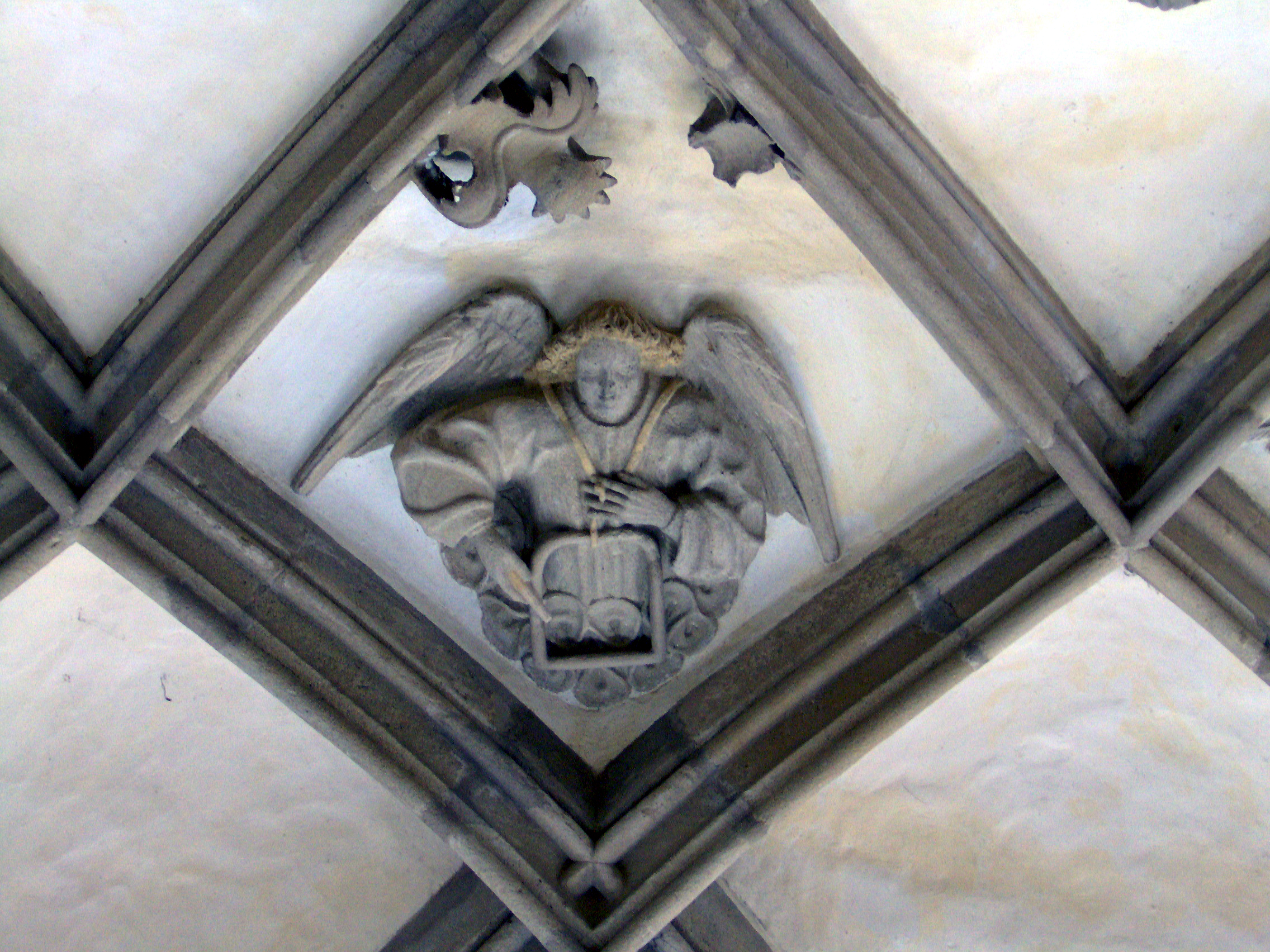 an angel in the monastery of himmelkron, germany